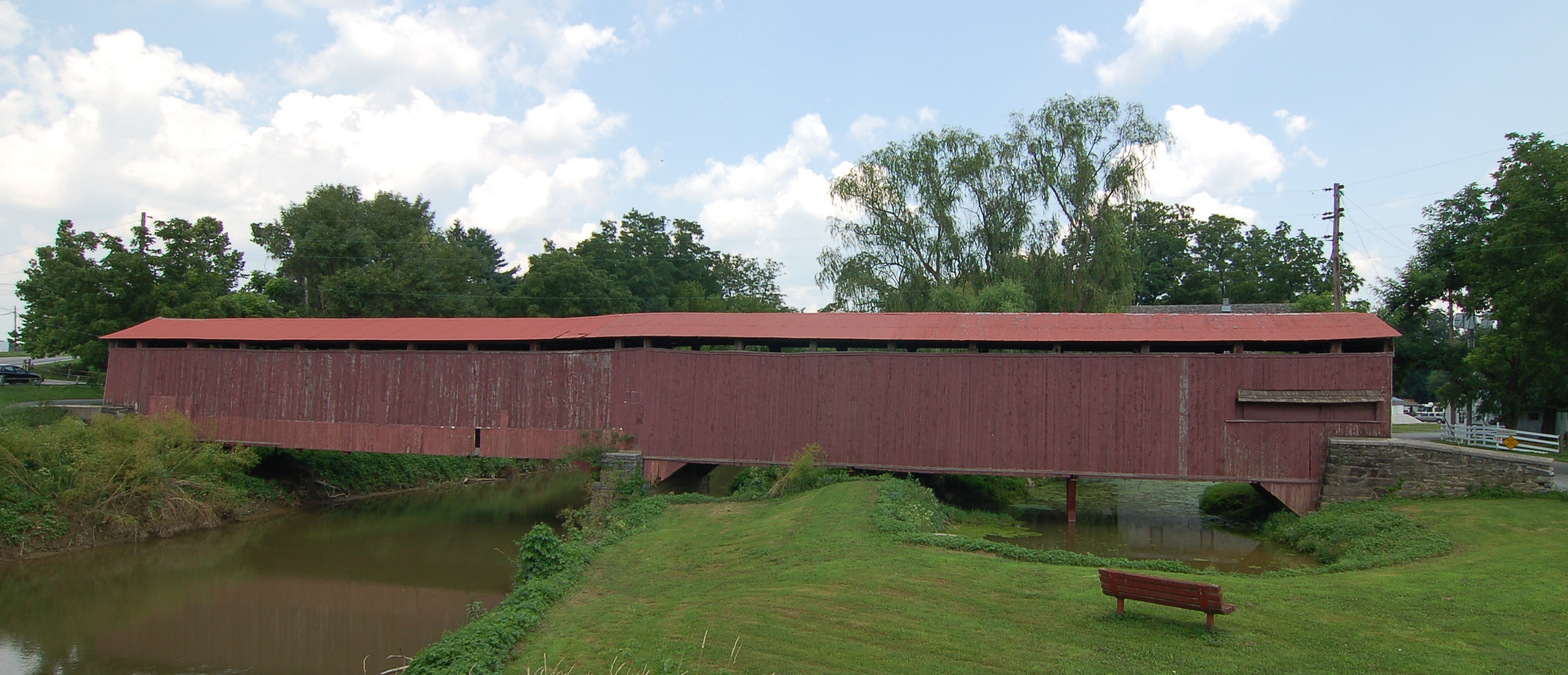 A wide angle photograph of the Herr's Mill Covered Bridge showing the entire side of the bridge. The bridge is located in Lancaster County, Pennsylvania.